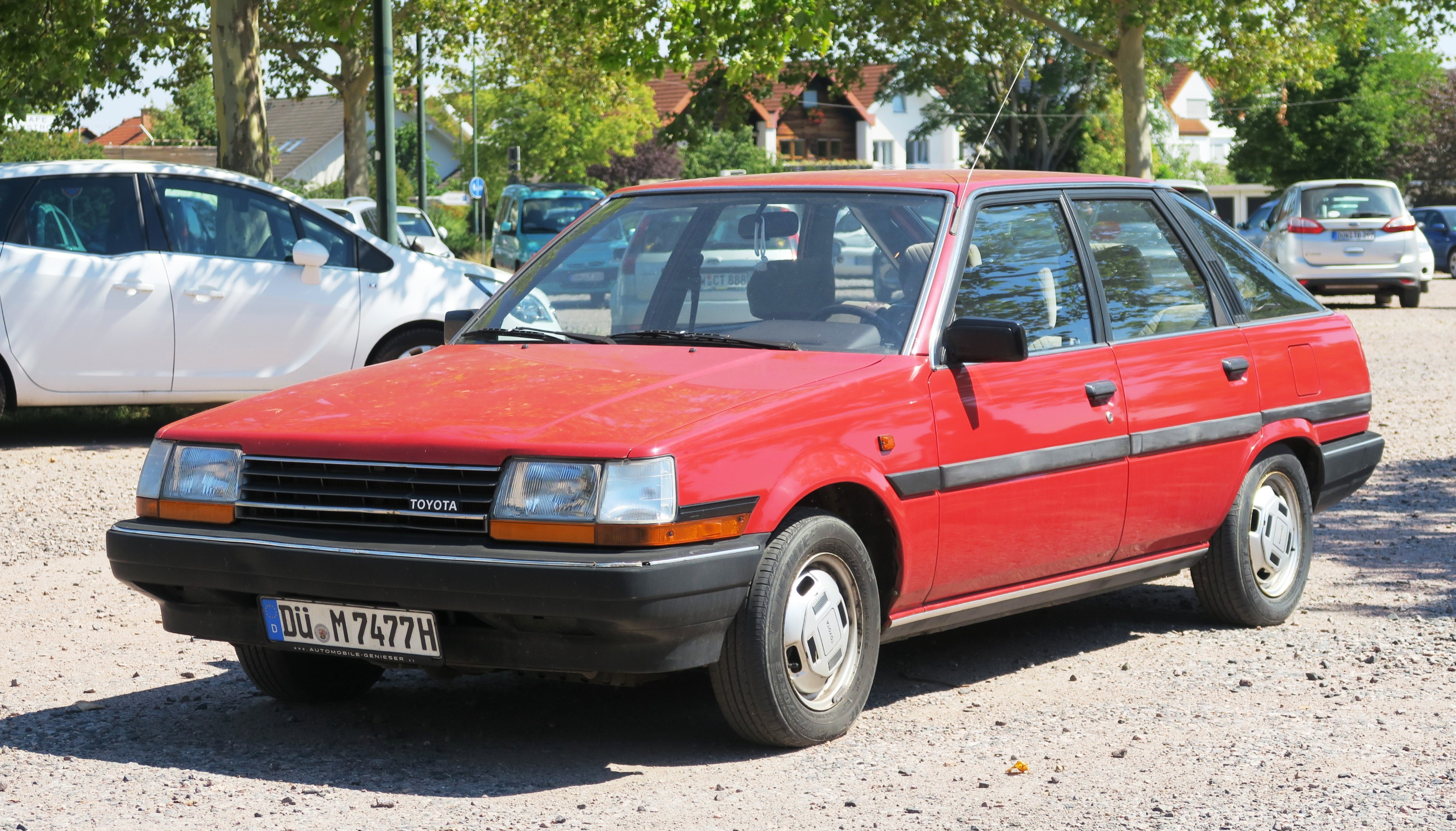 Toyota AT151 Carina II liftback